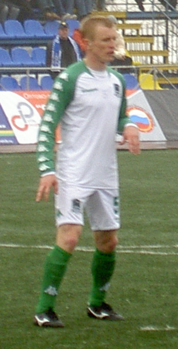 Kaleshin Evgeniy Igorevich